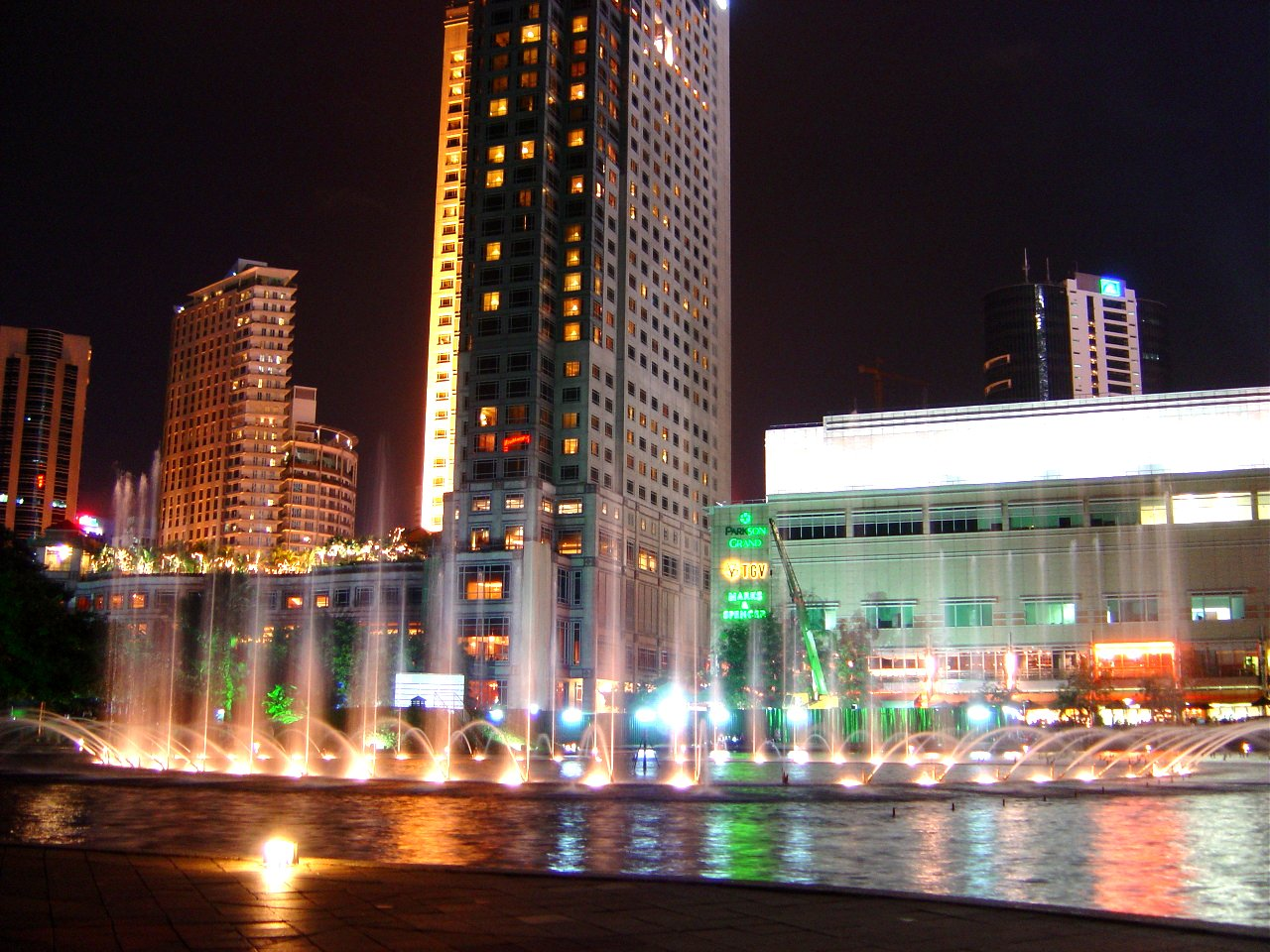 Scenery around KLCC park at night